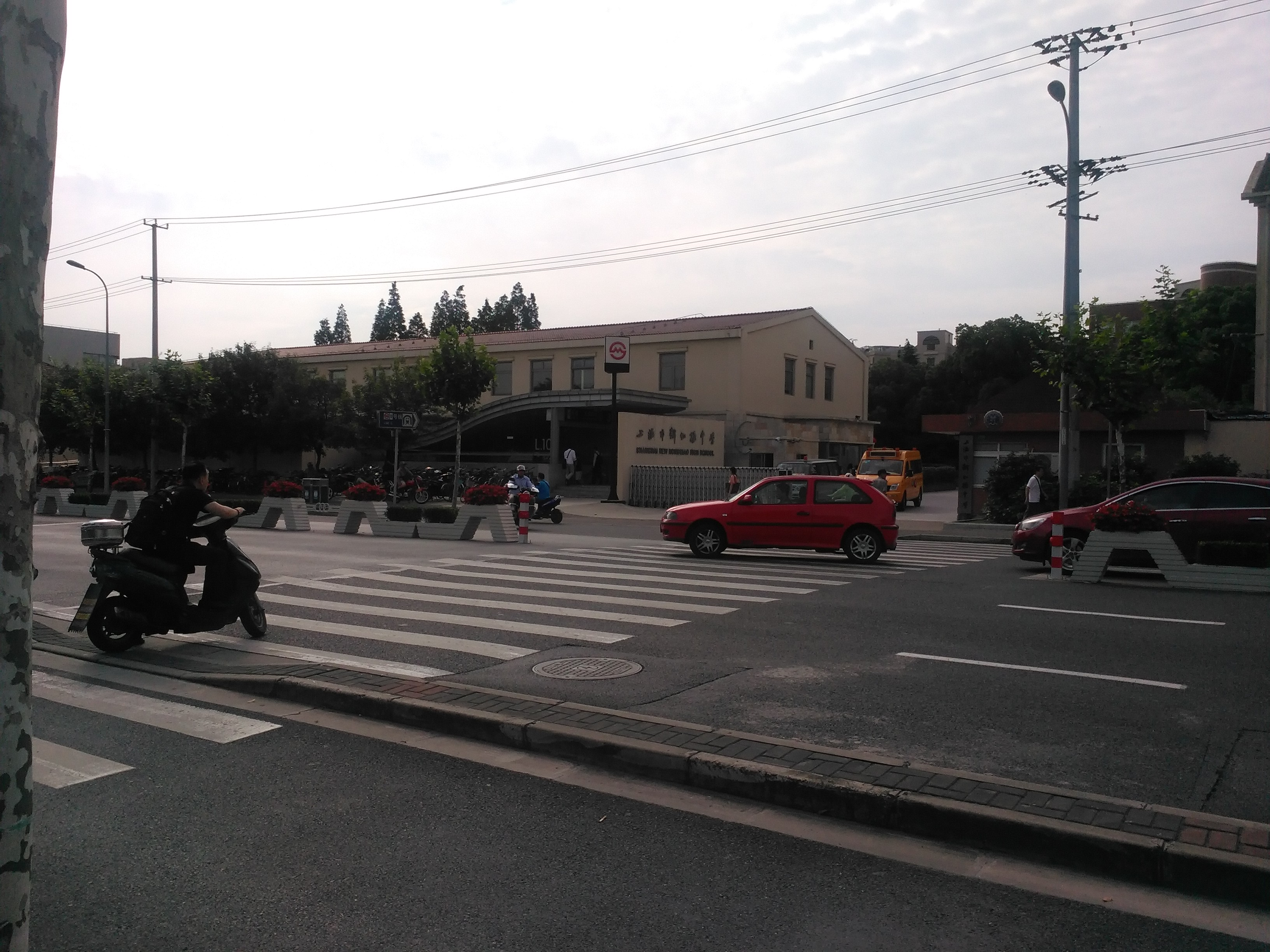 Shanghai New Hongqiao High School - 2206 Hongqiao Road